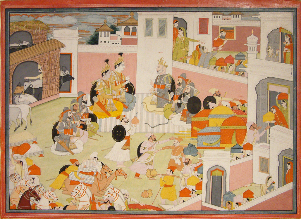 Unknown Indian, Rajput Rama and Krishna being received at the Court of the King Ugrasena at Mathura 17th-18th Century Painting Gouache on paper AC 1968.13 Bequest of Alban Widgery